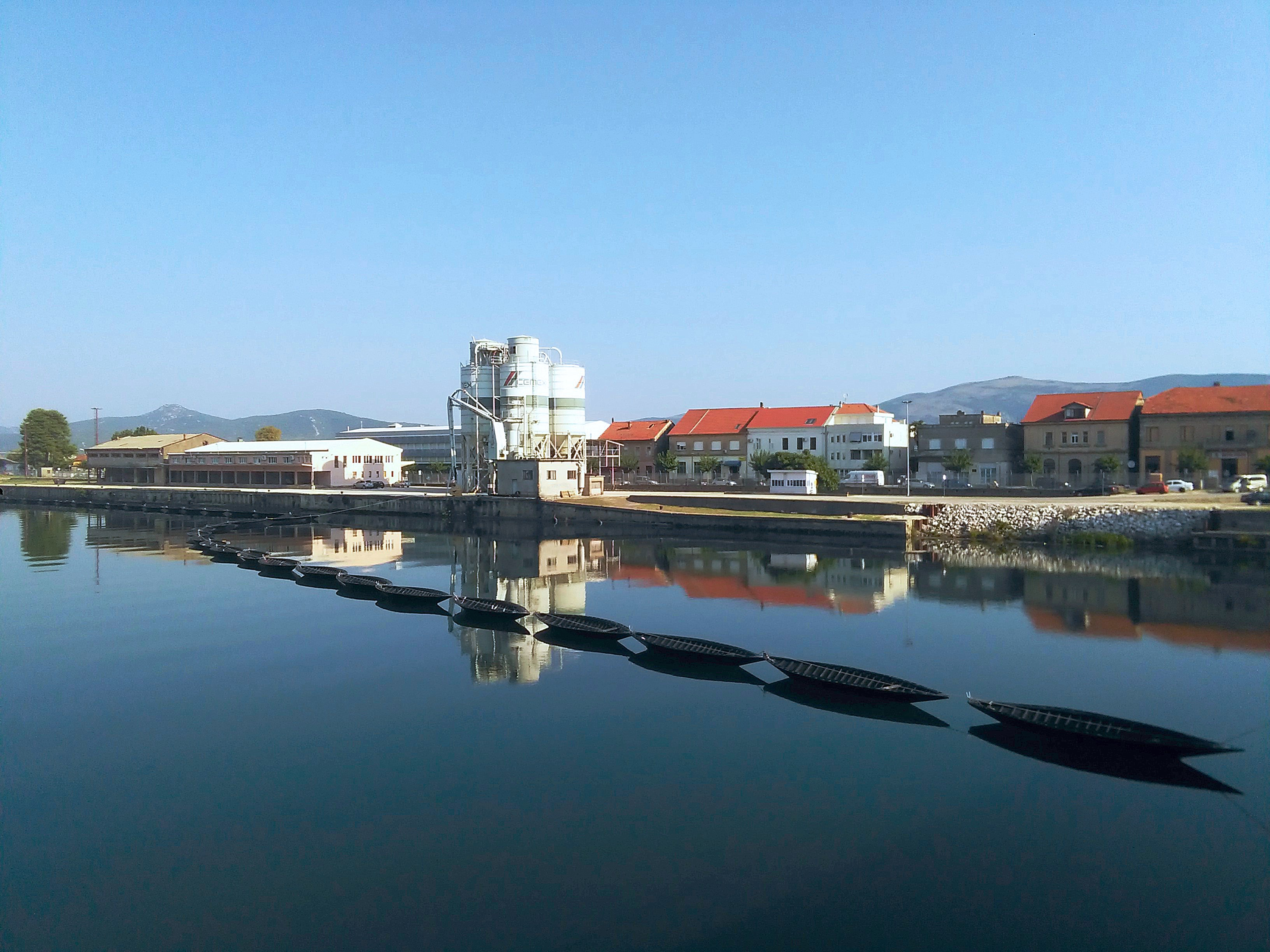 Lađe (traditional vessels from Neretva valley) in river Neretva in Metković